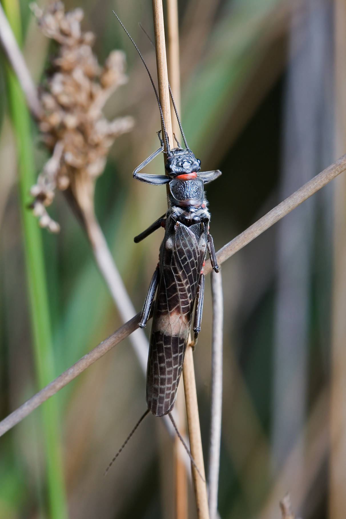 Eusthenia sp. (possibly E. costalis), Marriott Falls Track, Mt Field National Park, Tasmania, Australia Camera data Camera Canon EOS 400D Lens Tamron EF 180mm f3.5 1:1 Macro Flash Umbrella Right Focal length 180 mm Aperture f/11 Exposure time 1/200 s Sensivity ISO 400